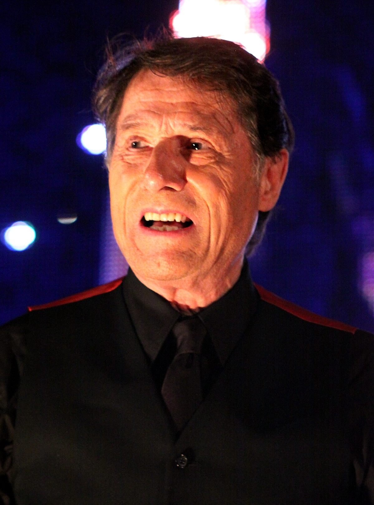 Udo Jürgens in concert at “Der Soloabend 2010” in Sankt Margarethen im Burgenland (Austria)